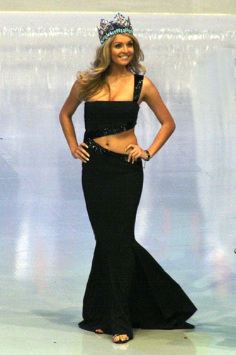 Tatiana Kucharova, Miss World 2006, during the Miss World 2007 event